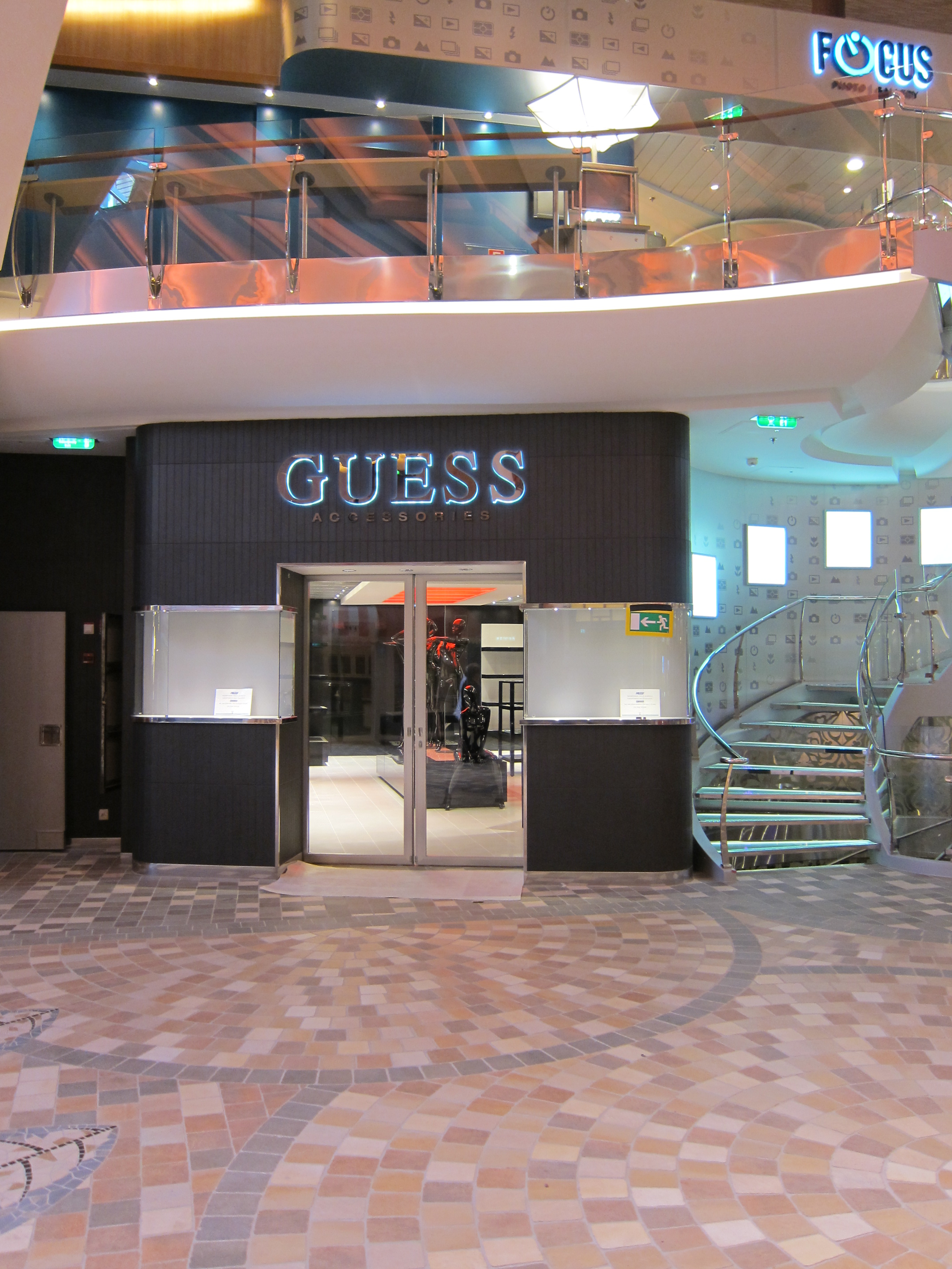 MS Allure of the Seas at STX Europe shipyard Turku, Finland.